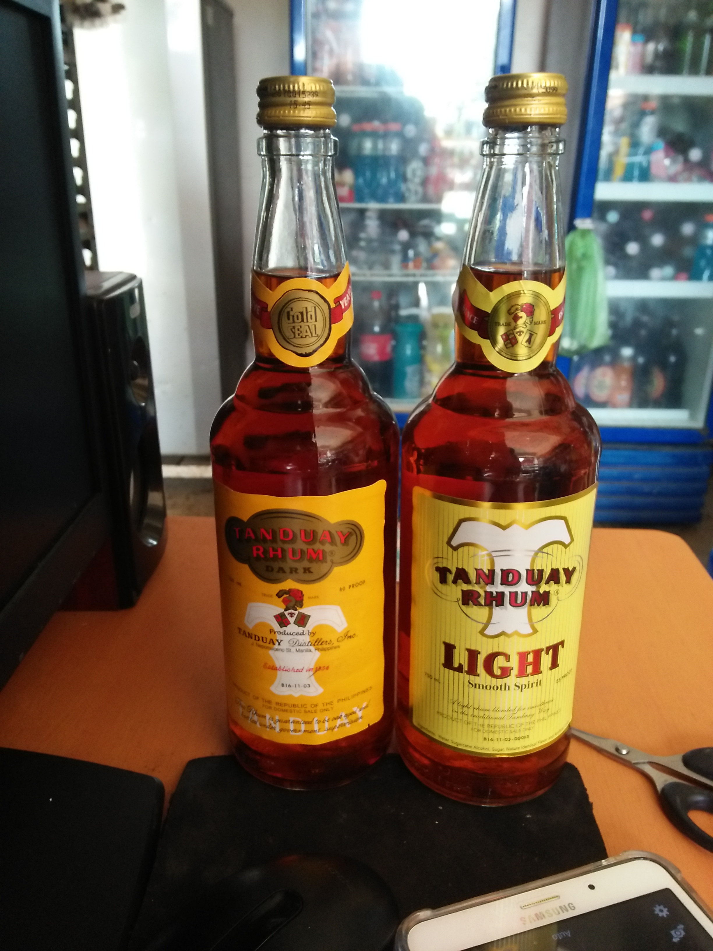 Tanduay